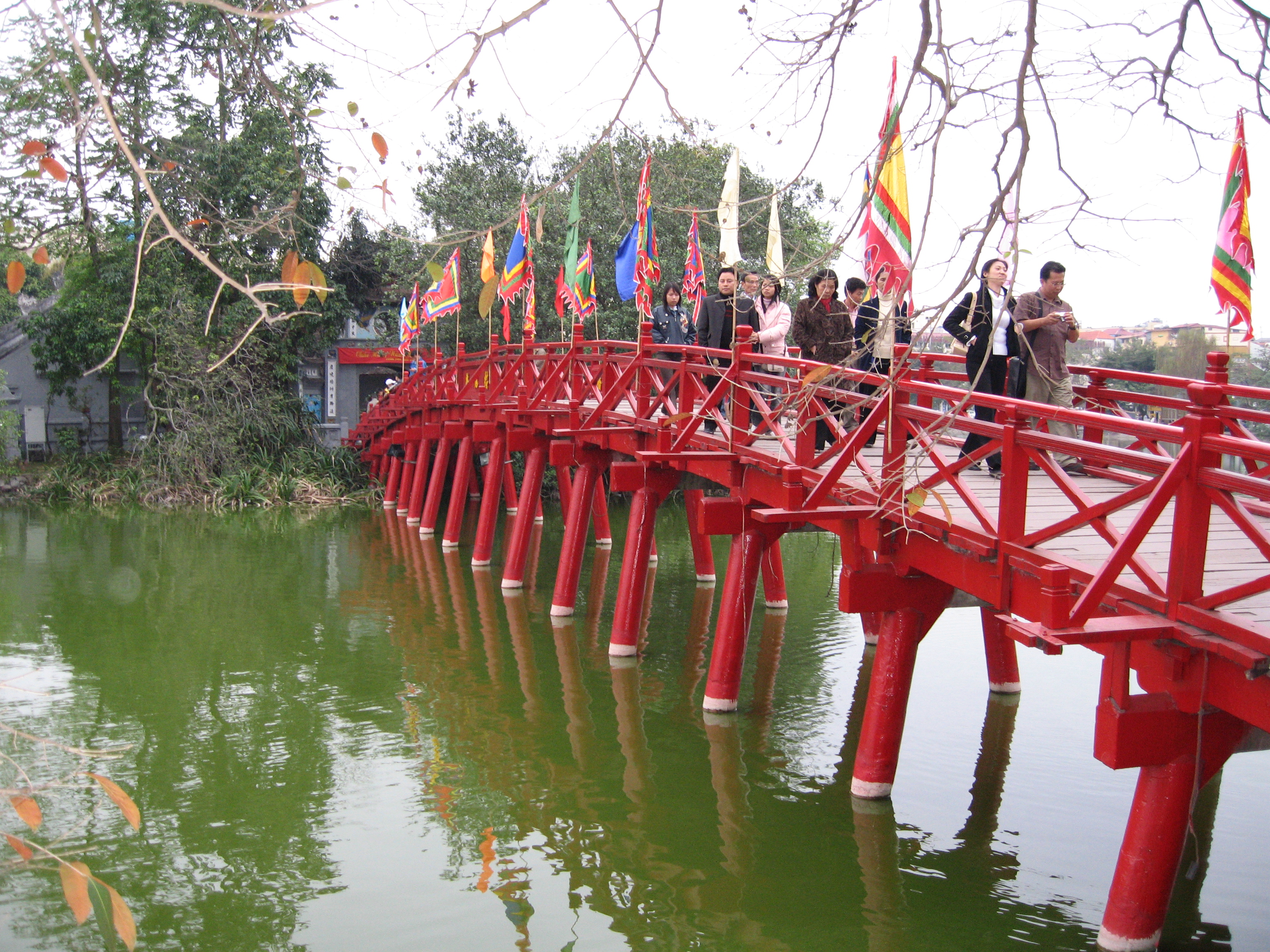 The Huc bridge, Hanoi, Vietnam.